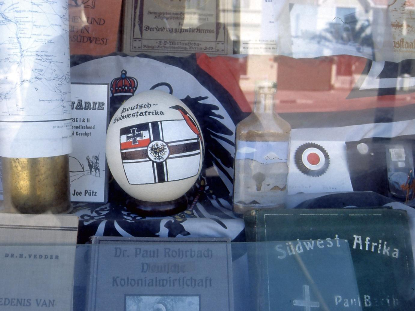 "Deutsch-Südwest" devotionalia in a shop-window, Swakopmund, Namibia